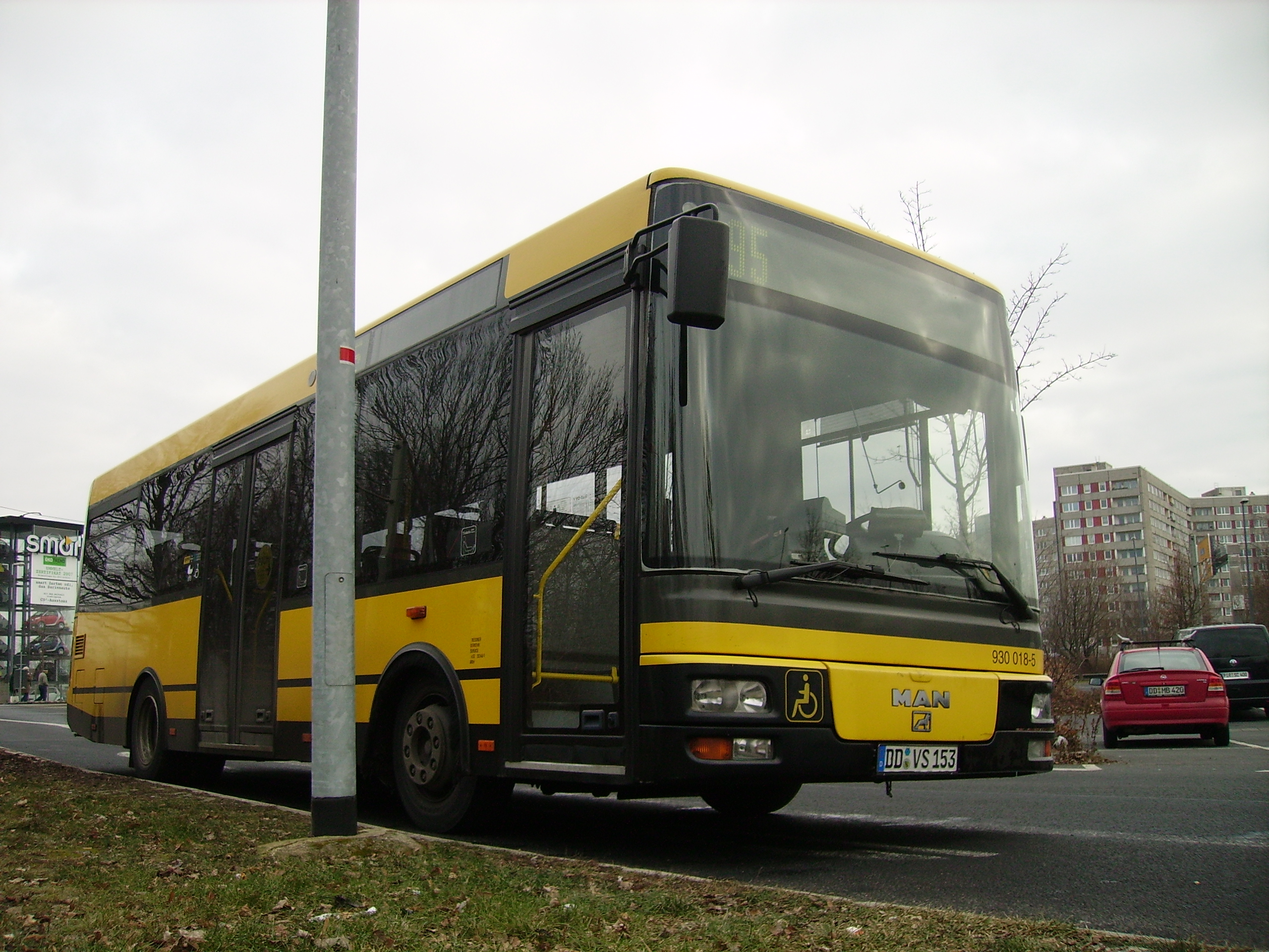 MAN-Göppel NM223 city bus (#930 018-5) in Dresden, Germany. Built 2000, Dresdner Verkehrsbetriebe AG (DVB) operator.